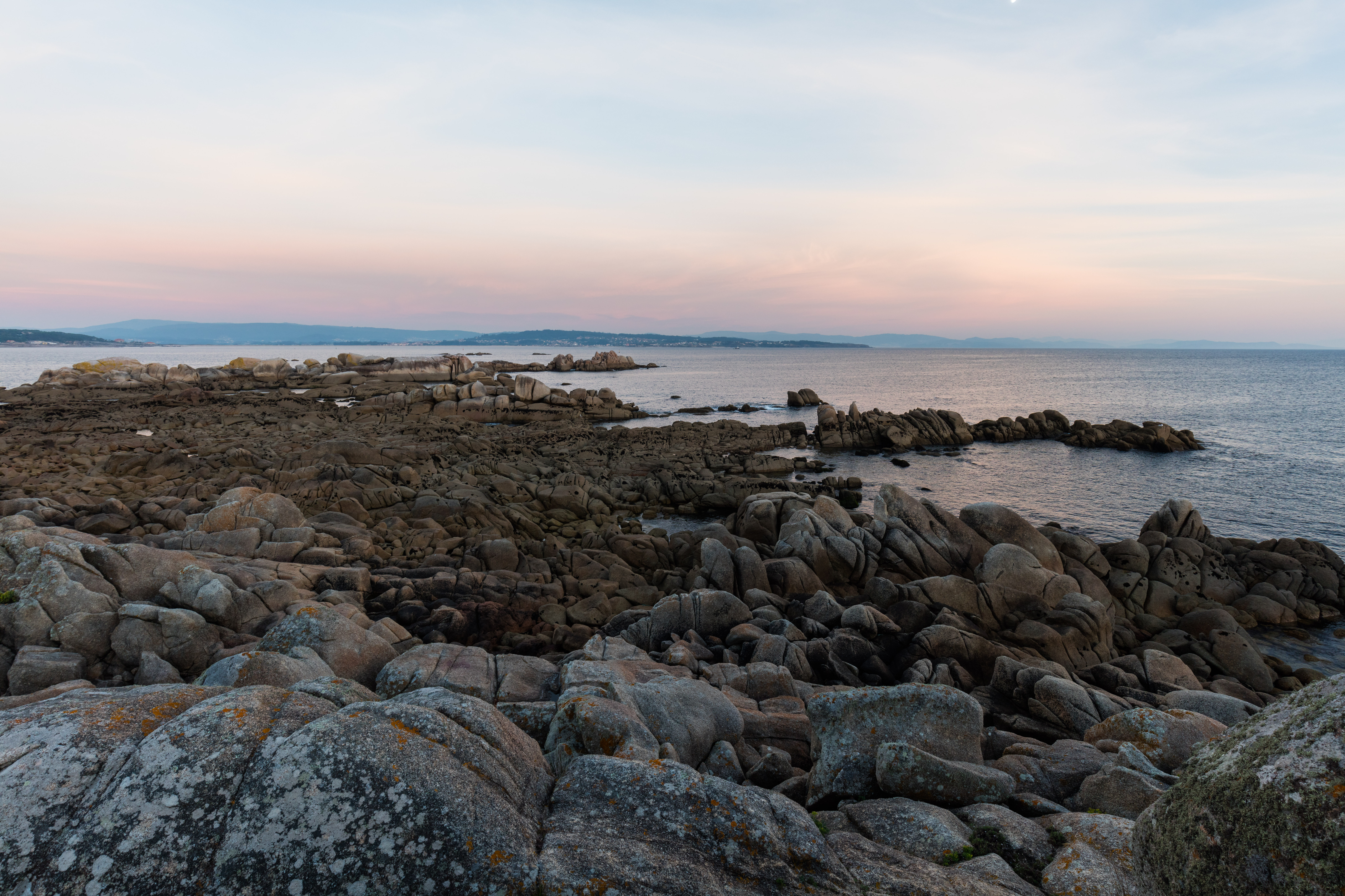 Coast of St Vicente, El Grove, Pontevedra, Spain